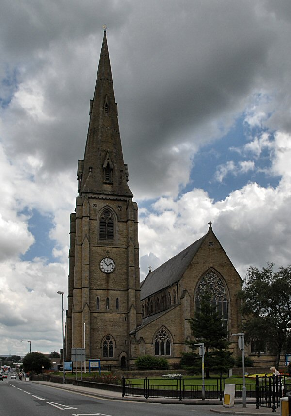 St Luke's Church in Heywood, Greater Manchester, England.